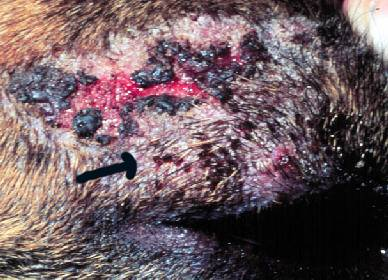 Excoriations and crusts and stick-tight fleas on a dog; above eye